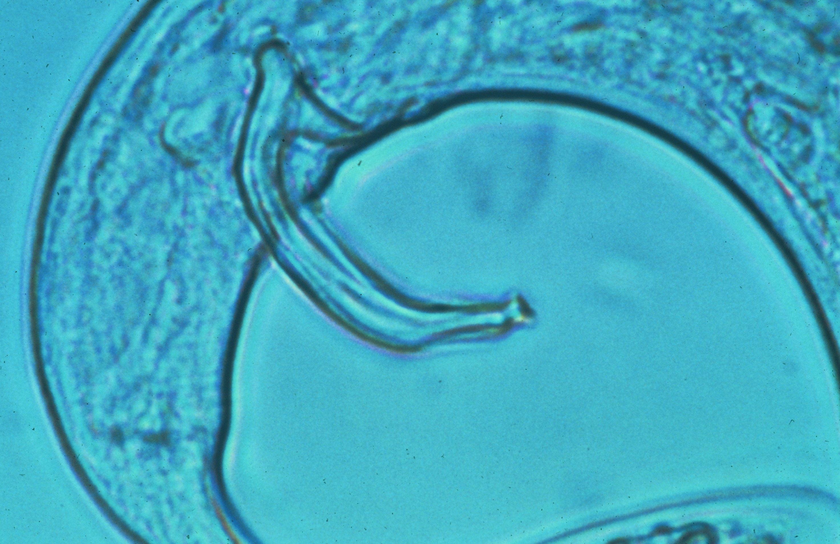 Bursaphelenchus xylophilus, pine wilt nematode, USA. Male with spicule visible.